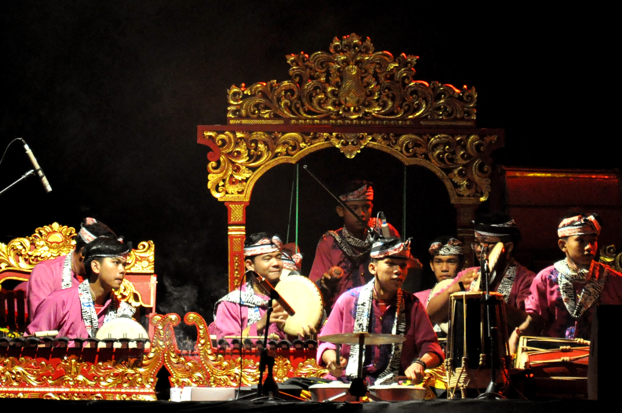 what kind of music you loved to listen? i prefer Gamelan. A set of instrument that play such an amazing music: both joy and loneliness